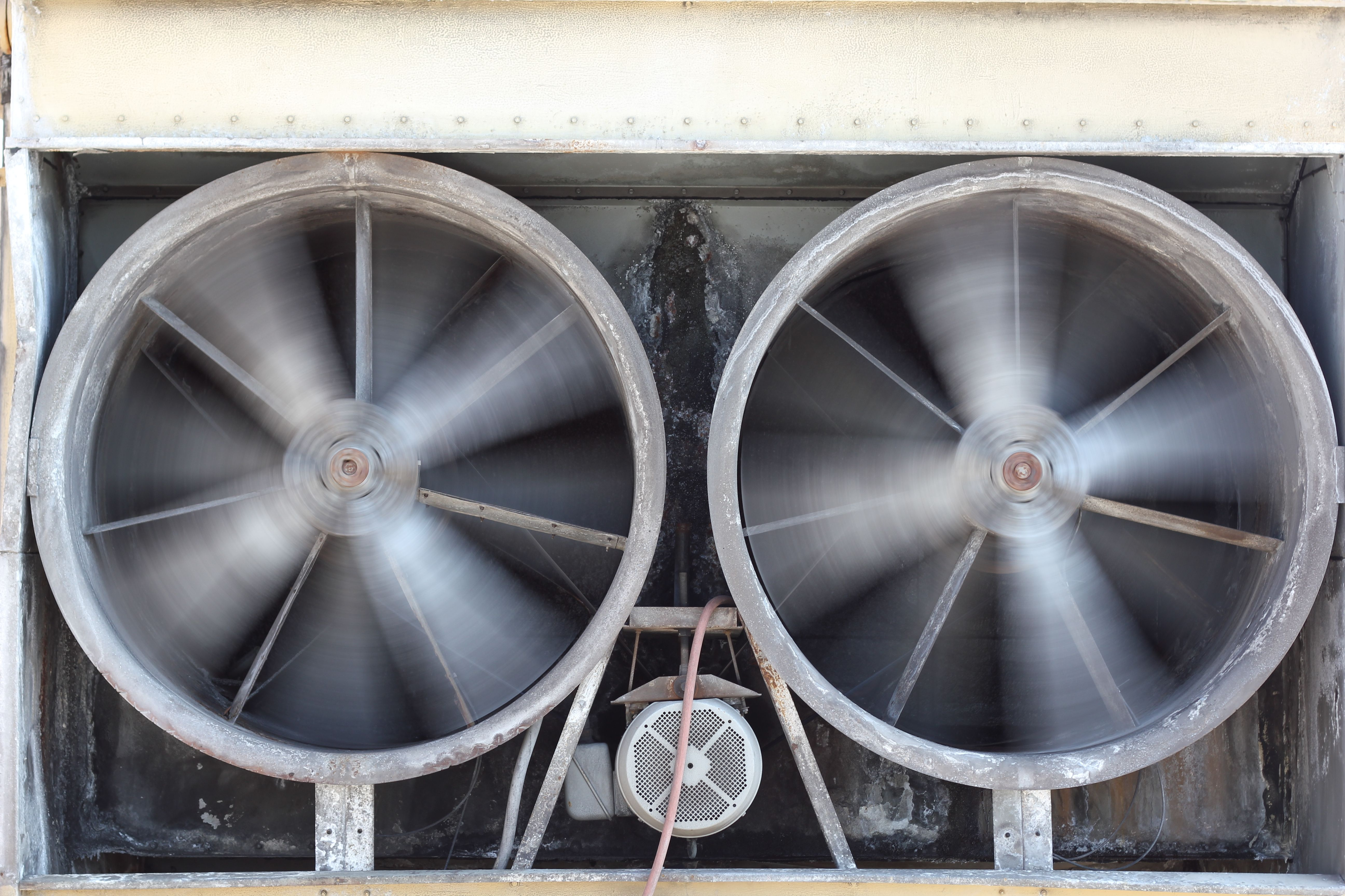 A huge double HVAC exhaust of an office building.